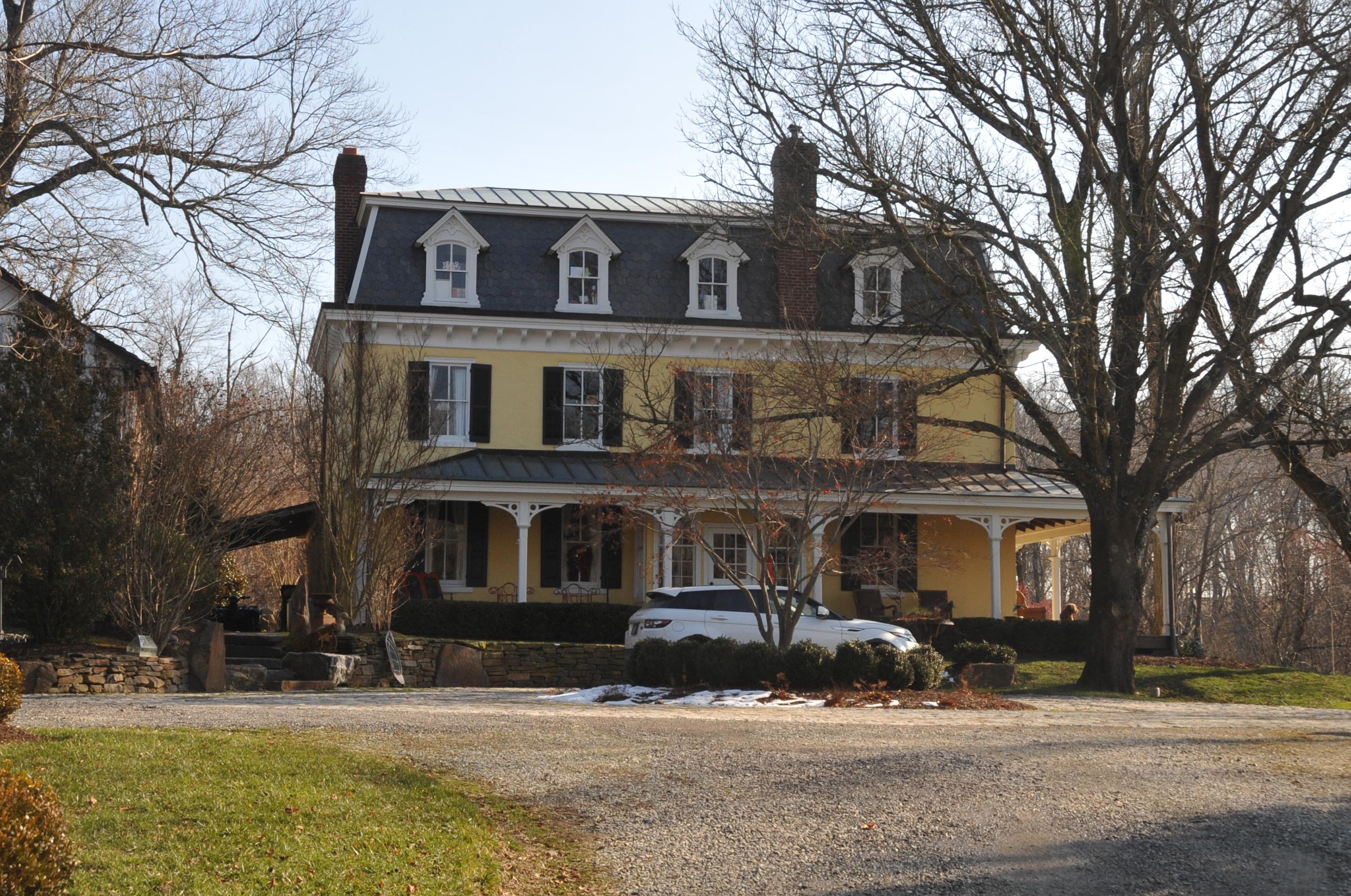 THIS PICTURE IS PROBABLY ONE OF THE TENANT HOUSES. THE COMPLEX CONSISTS OF THE HOUSE, RUINED FOUNDATIONS OF THE MILL, BARN, TENANT HOUSES. IT IS LOCATED AT 86 ROCKY HILL ROAD BUT THIS ROAD IS BARRICADED AT BOTH ENDS AND ONLY OPEN PERHAPS ON WEEKENDS WHEN YOU ARE LUCKY ENOUGH TO ENTER WHILE THEY ARE HOLDING A FOX HUNT AS THEY WERE WHEN I VISTED. THIS IS AN EXCEEDINGLY DIFFICULT HISTORICAL SITE TO LOCATE